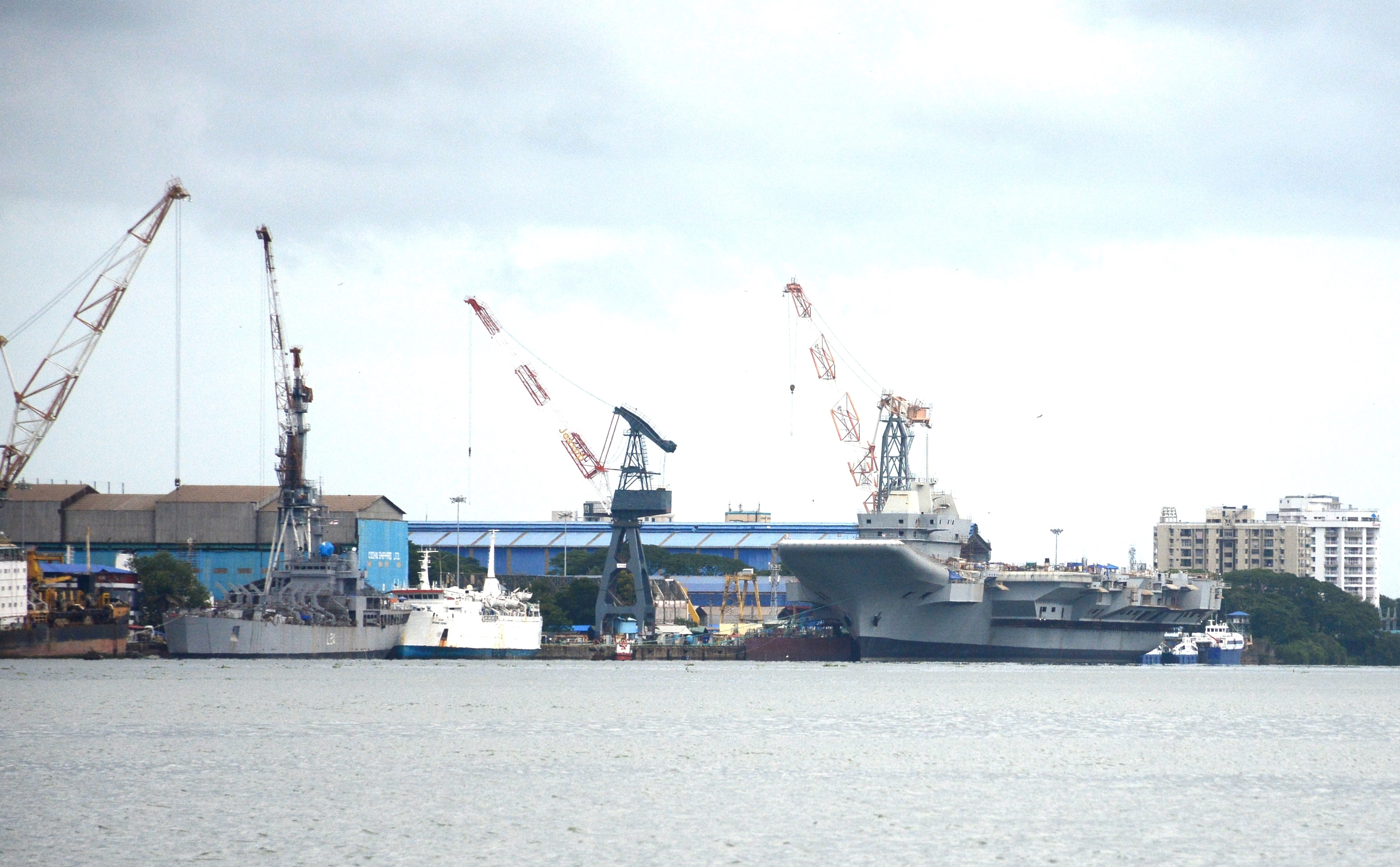 The Vikrant class is the very first class of aircraft carriers built entirely in India for Indian Navy